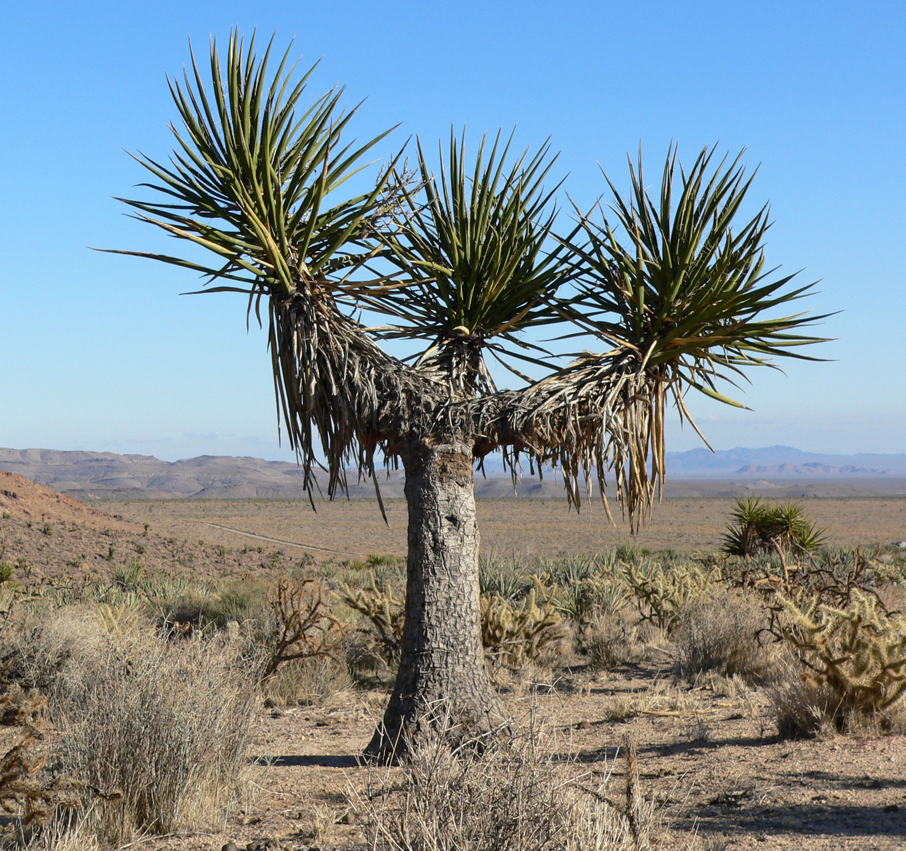 Yucca schidigera in Wildhorse Canyon, Mojave National Preserve, southern California